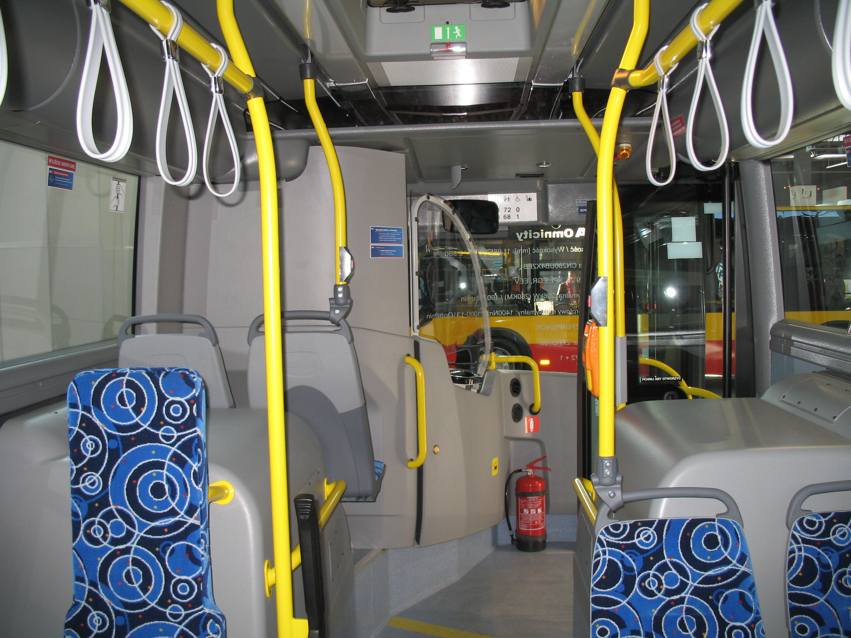 Scania CN280UB 4x2 EB OmniCity bus interior (reg. GS 55979, #3038) in Kielce, Poland. Built 2010, MZK Słupsk operator.